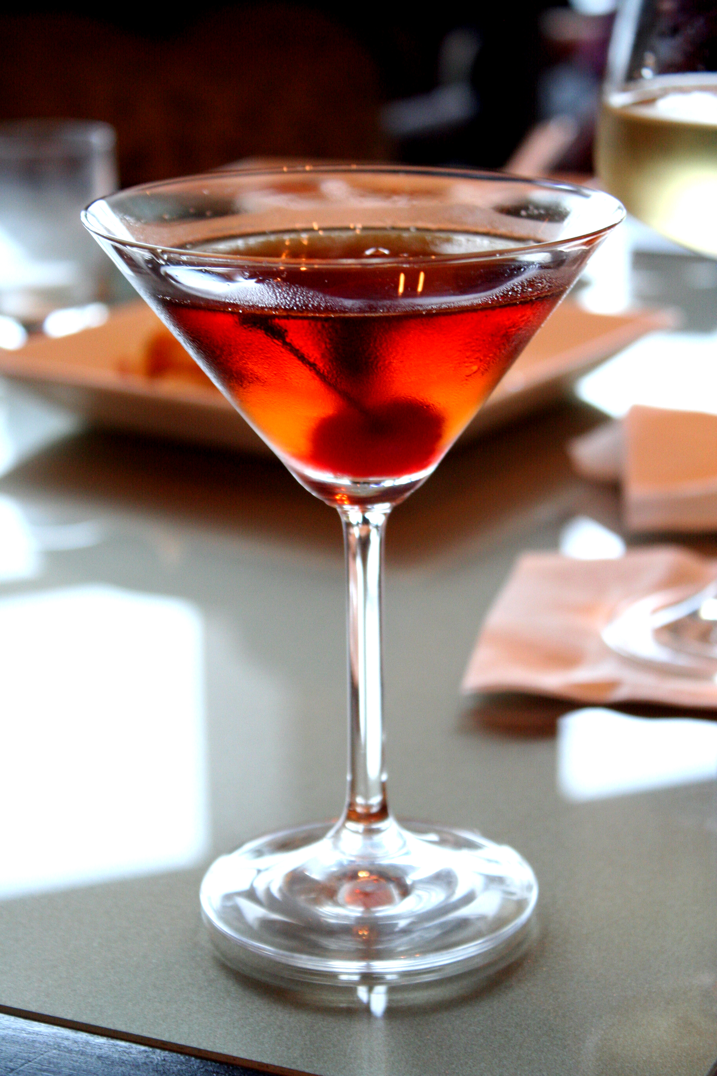 Some light refreshment in the hotel lounge...